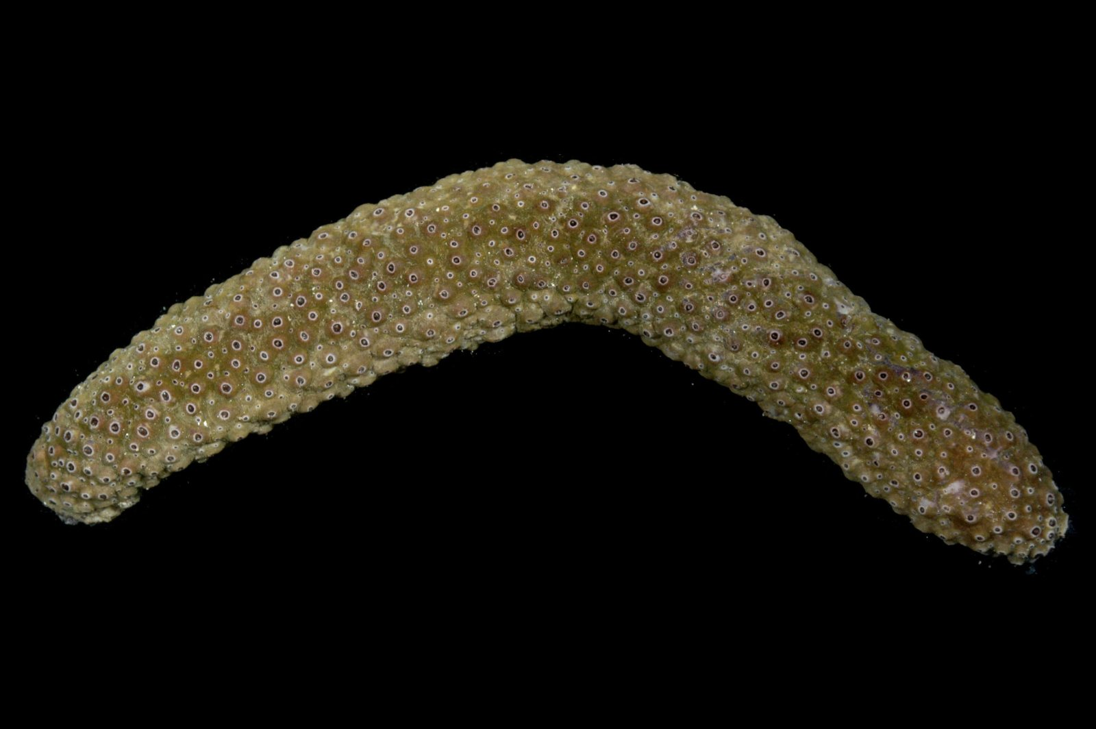 Holothuria turriscelsa. Kosrae, Federated States of Micronesia.